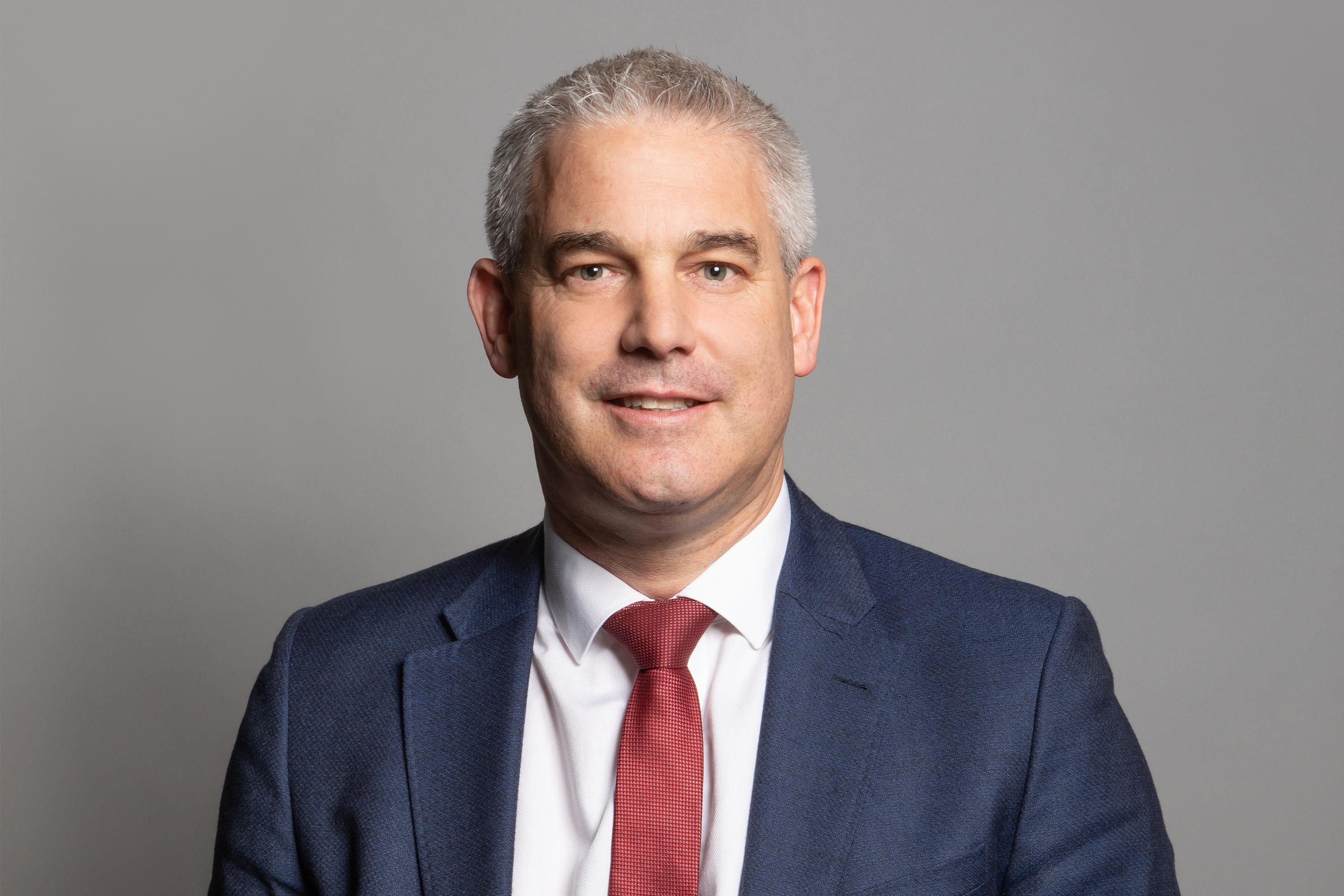 Official portrait of Rt Hon Steve Barclay MP 3×2 portrait of Steve Barclay